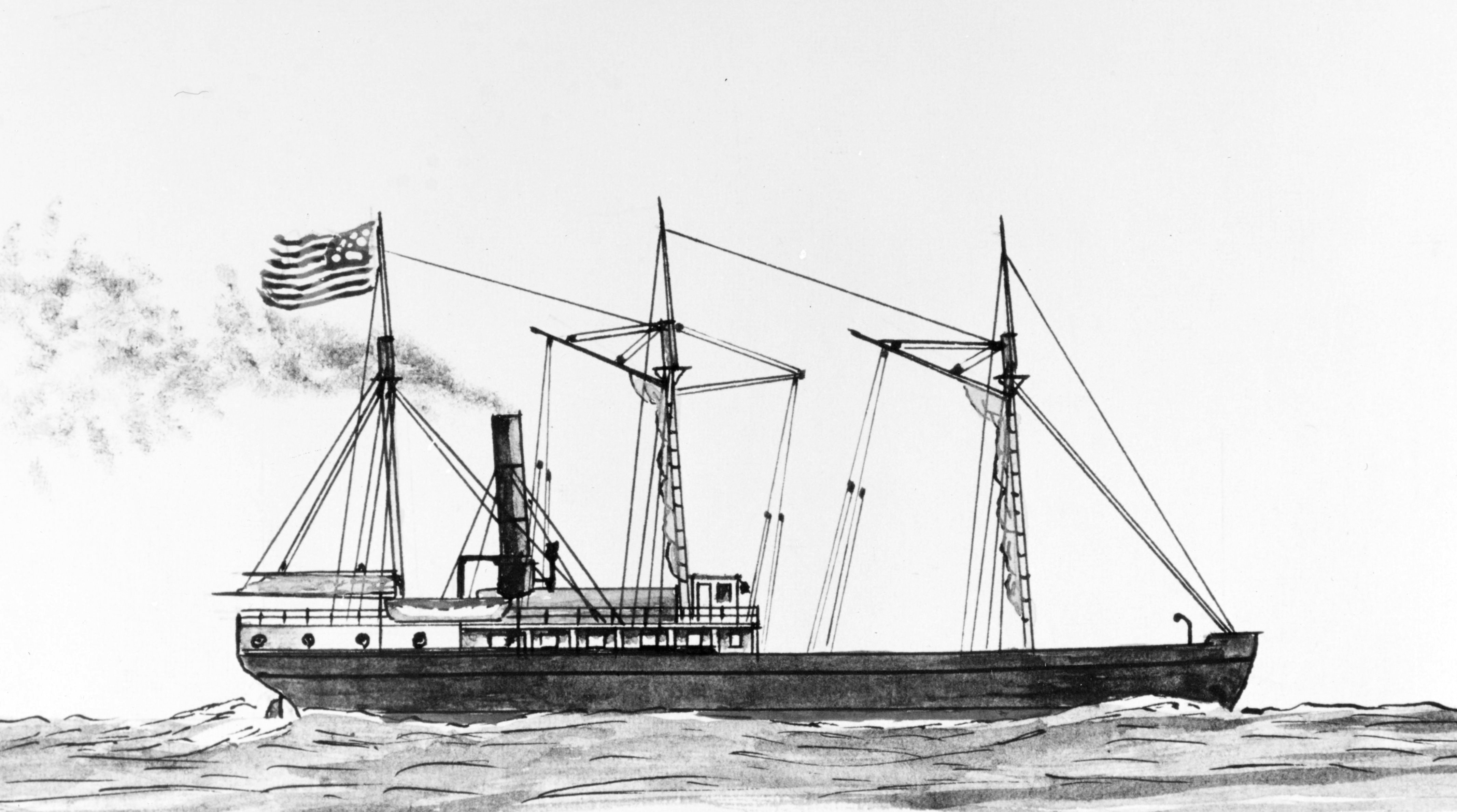 Steamer Dawn, which served in the United States Navy from 1861 to 1865 as USS Dawn.